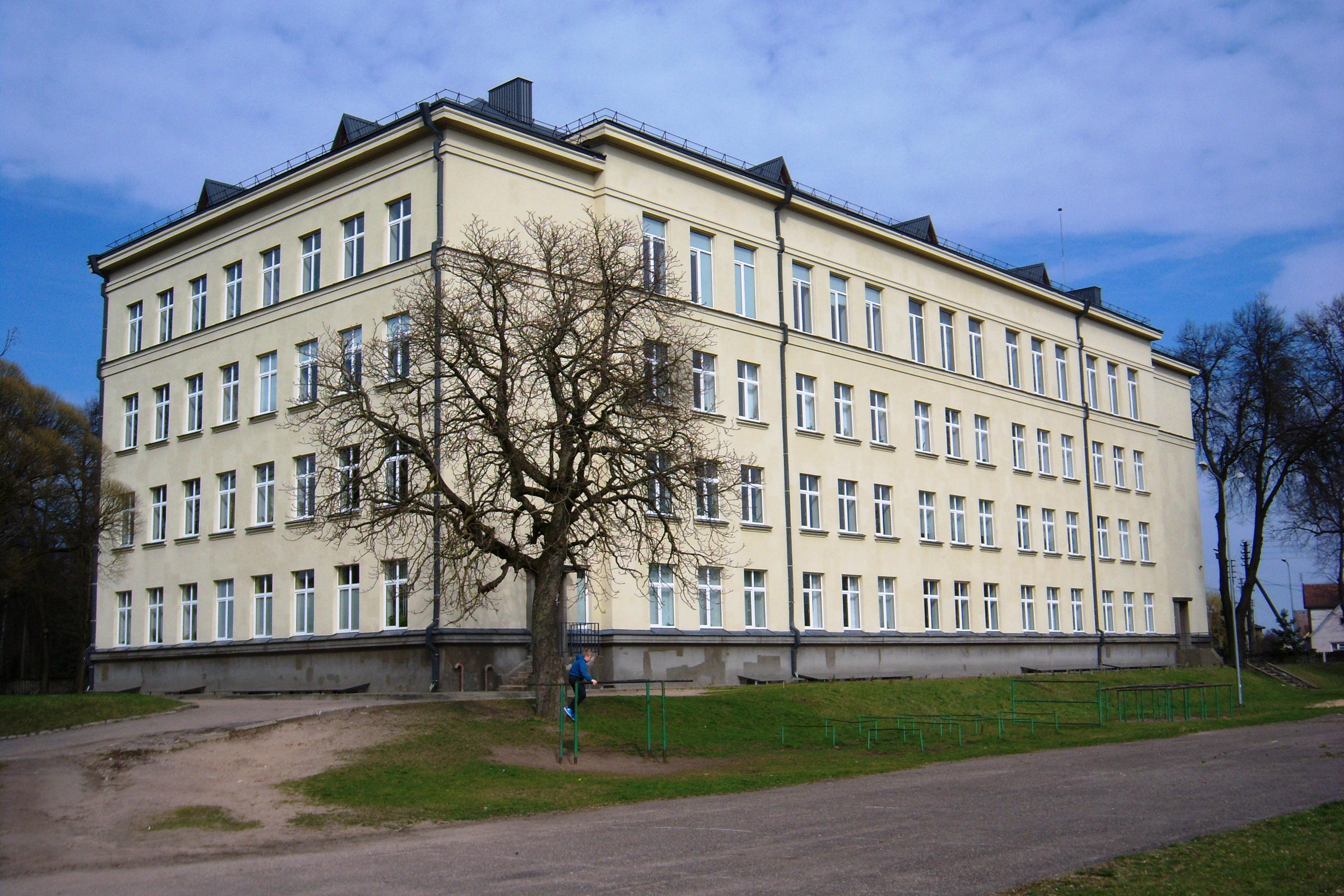 Žyburys Gymnasium, Prienai, Lithuania